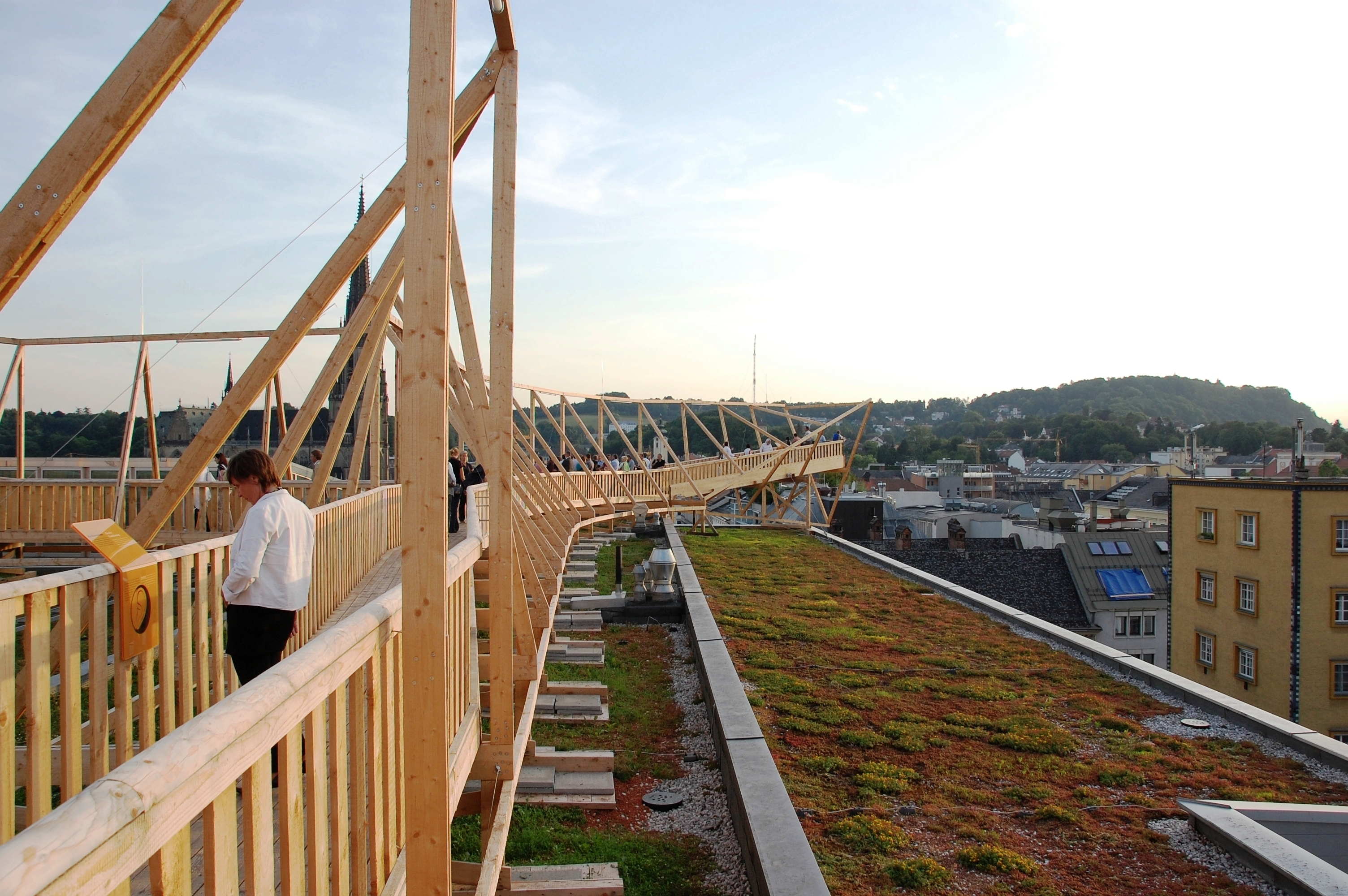 Höhenrausch, a European Capital of Culture project in Linz, Austria